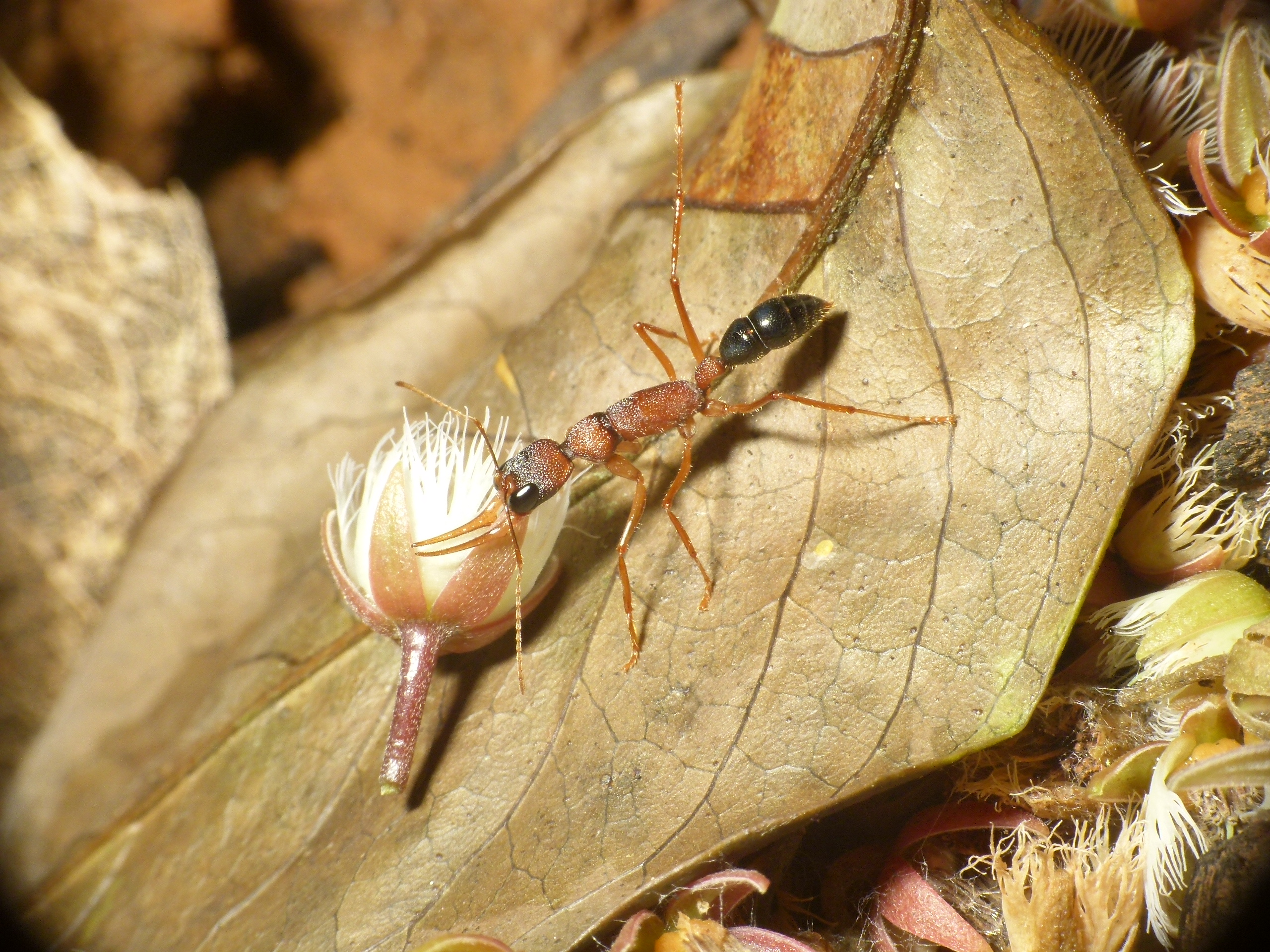 Harpegnathos saltator carrying flowers for nest entrance decoration, Wynaad, India